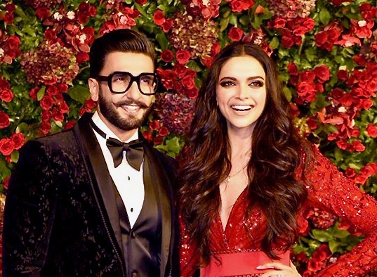 Deepika Padukone and Ranveer Singh at their wedding reception